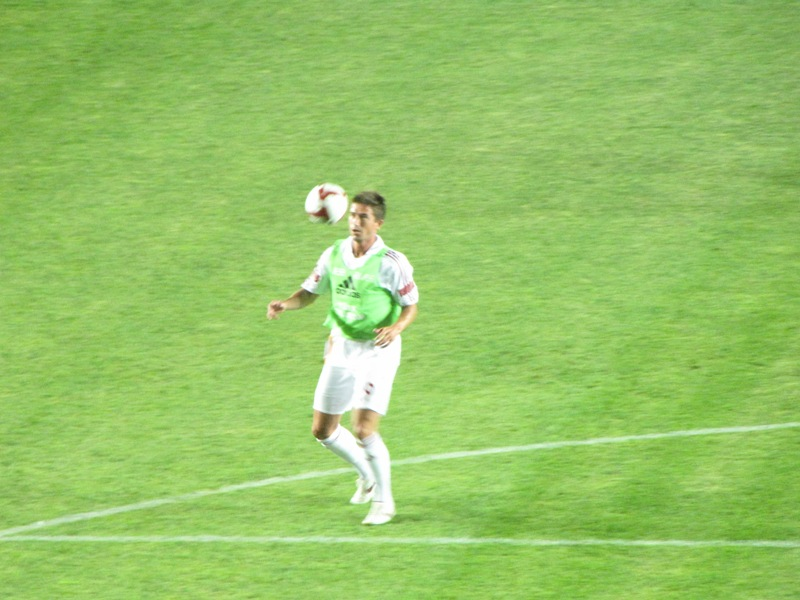 Galatasaray-Tobol European Cup 23.07.2009